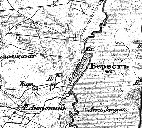 Berestia on the map "Военно-топографическая карта Российской Империи" (known as "Schubert's map"), XX 5, 1866-1887 (issued in 1913).